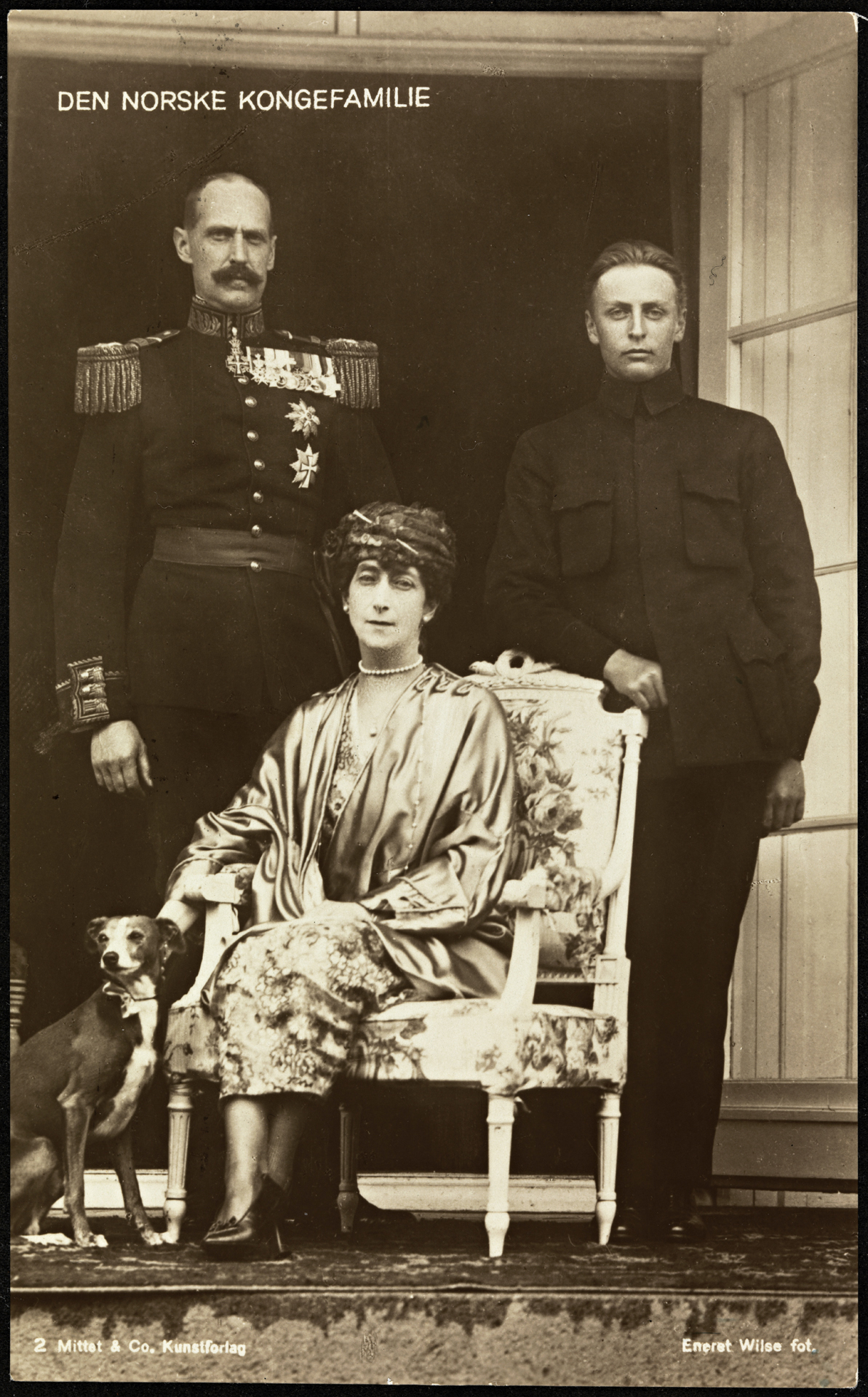 Tittel / Title: Den norske kongefamilie, 1921 Motiv / Motif: Postkort. Dato / Date: 1921 Fotograf / Photographer: Anders Beer Wilse (1865-1949) Utgiver / Publisher: Mittet & Co. Kunstforlag Eier / Owner Institution: Nasjonalbiblioteket / National Library of Norway Lenke / Link: Bildesignatur / Image Number: blds_04739